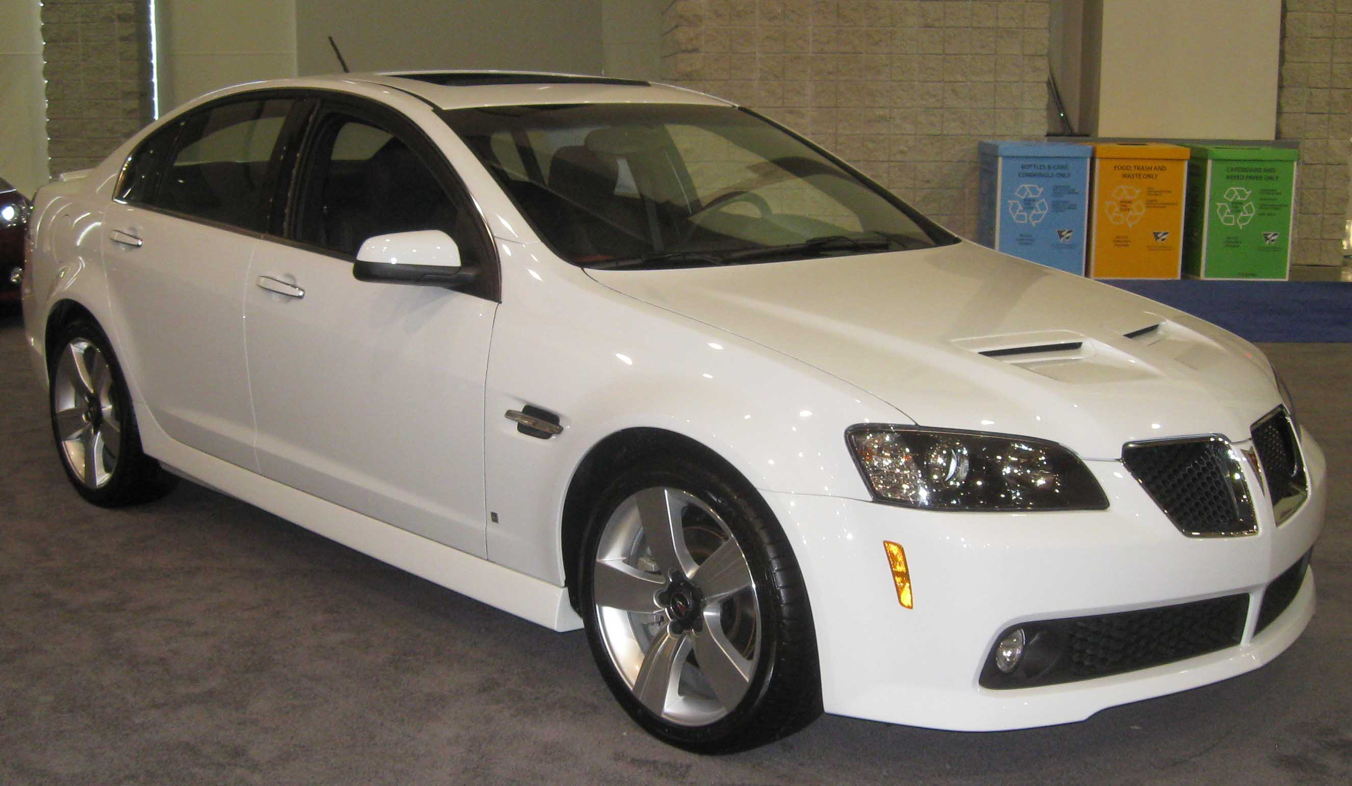 2009 Pontiac G8 photographed at the 2009 Washington DC Auto Show.